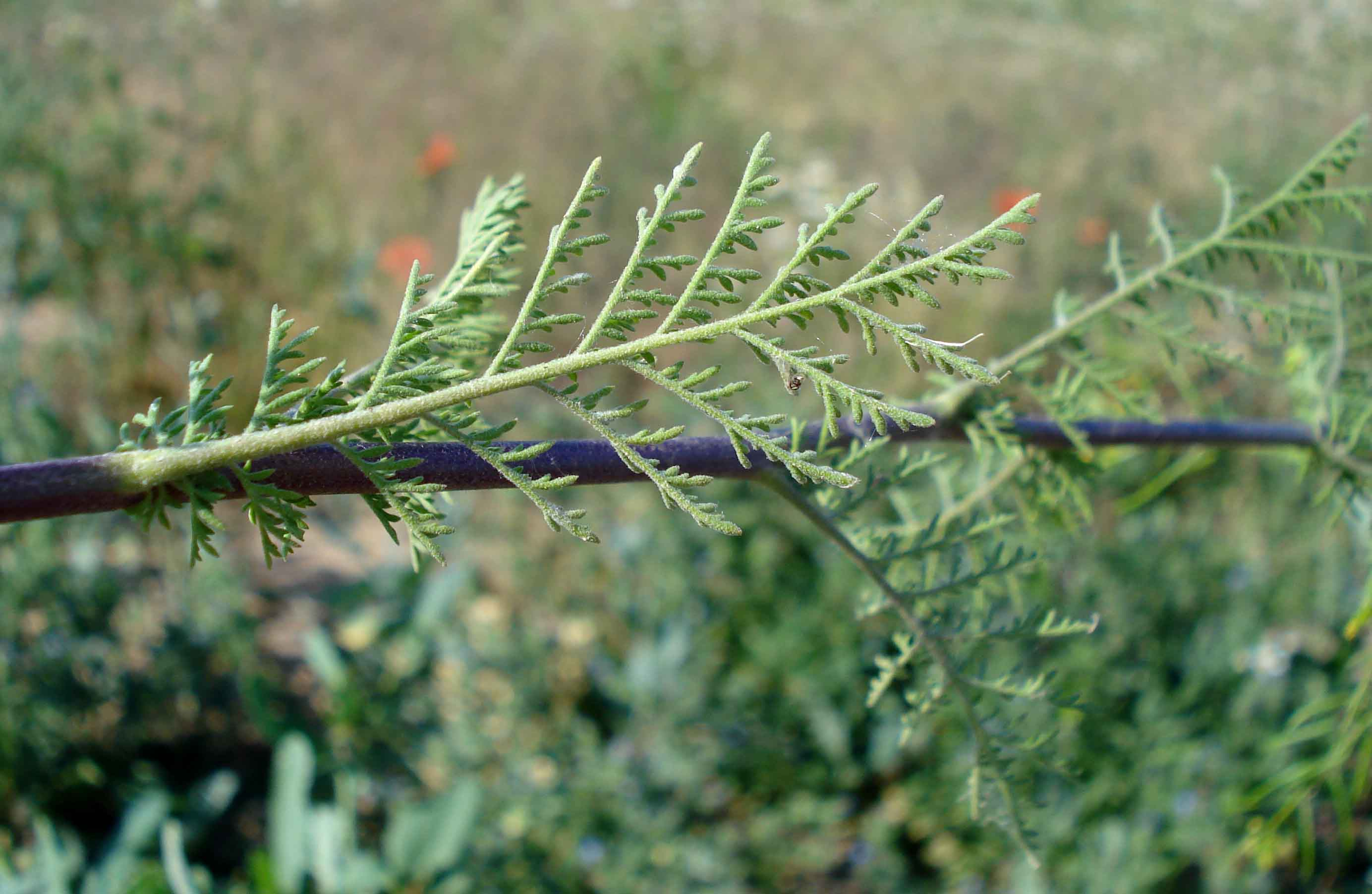 Descurainia sophia (Unterfranken, Germany)